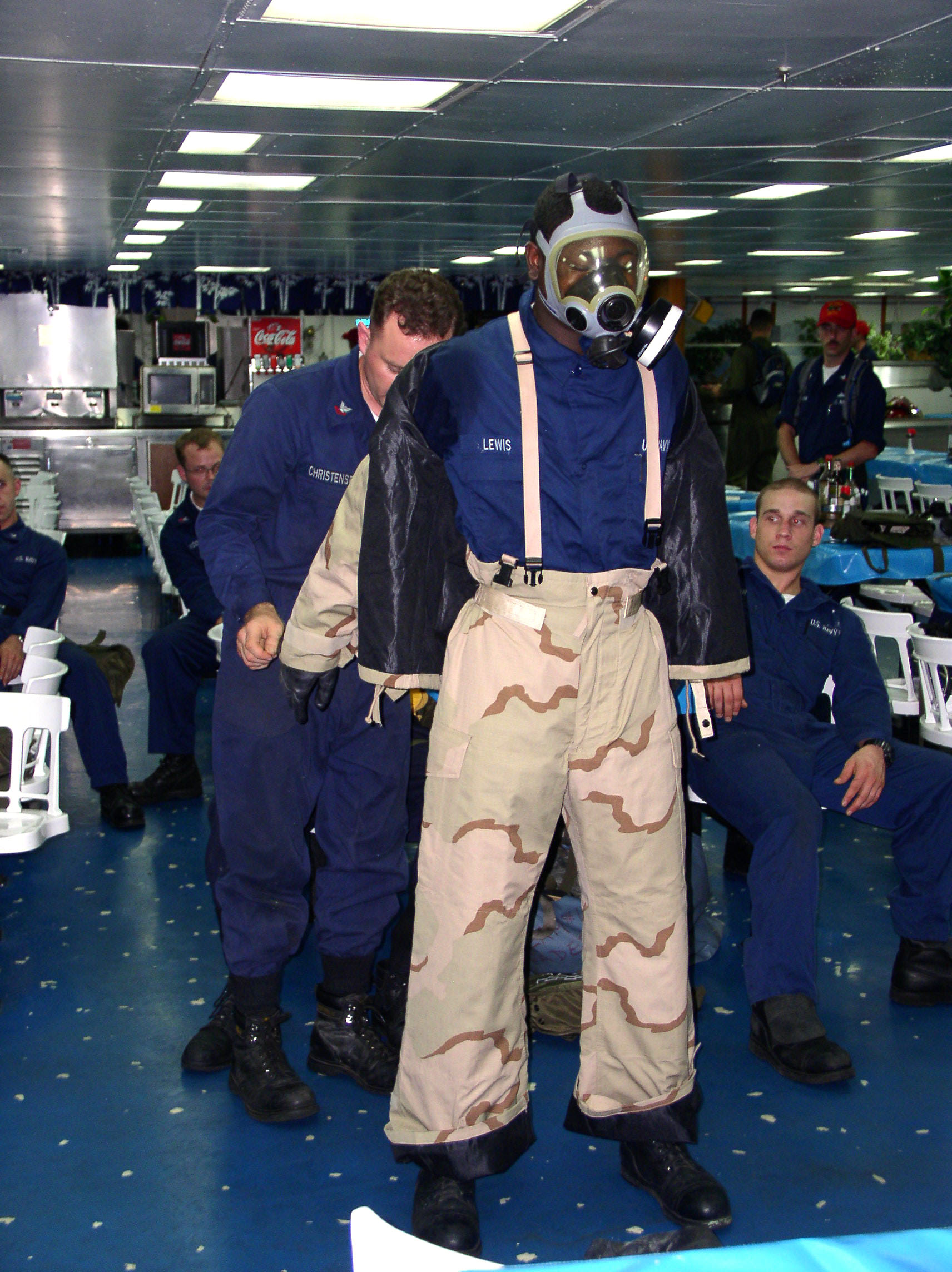 White Beach Port Facility, Okinawa, Japan (Aug. 19, 2004) – Damage Controlman 2nd Class Denny Christensen assists Fireman Darnell Lewis don an Advanced Chemical Protective Garment (ACPG) during a simulated Chemical Biological Radiological (CBR) General Quarters drill aboard the amphibious assault ship USS Essex (LHD 2). U.S. Navy photo by Photographer's Mate Airman Jhoan Montolio (RELEASED)